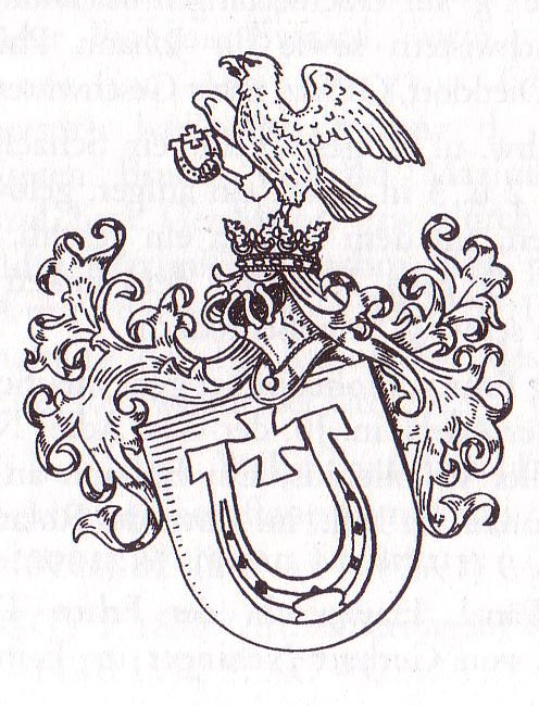 Coat of arms of the polish family Graf von Taczanowski (Jastrzębiec odmiana)